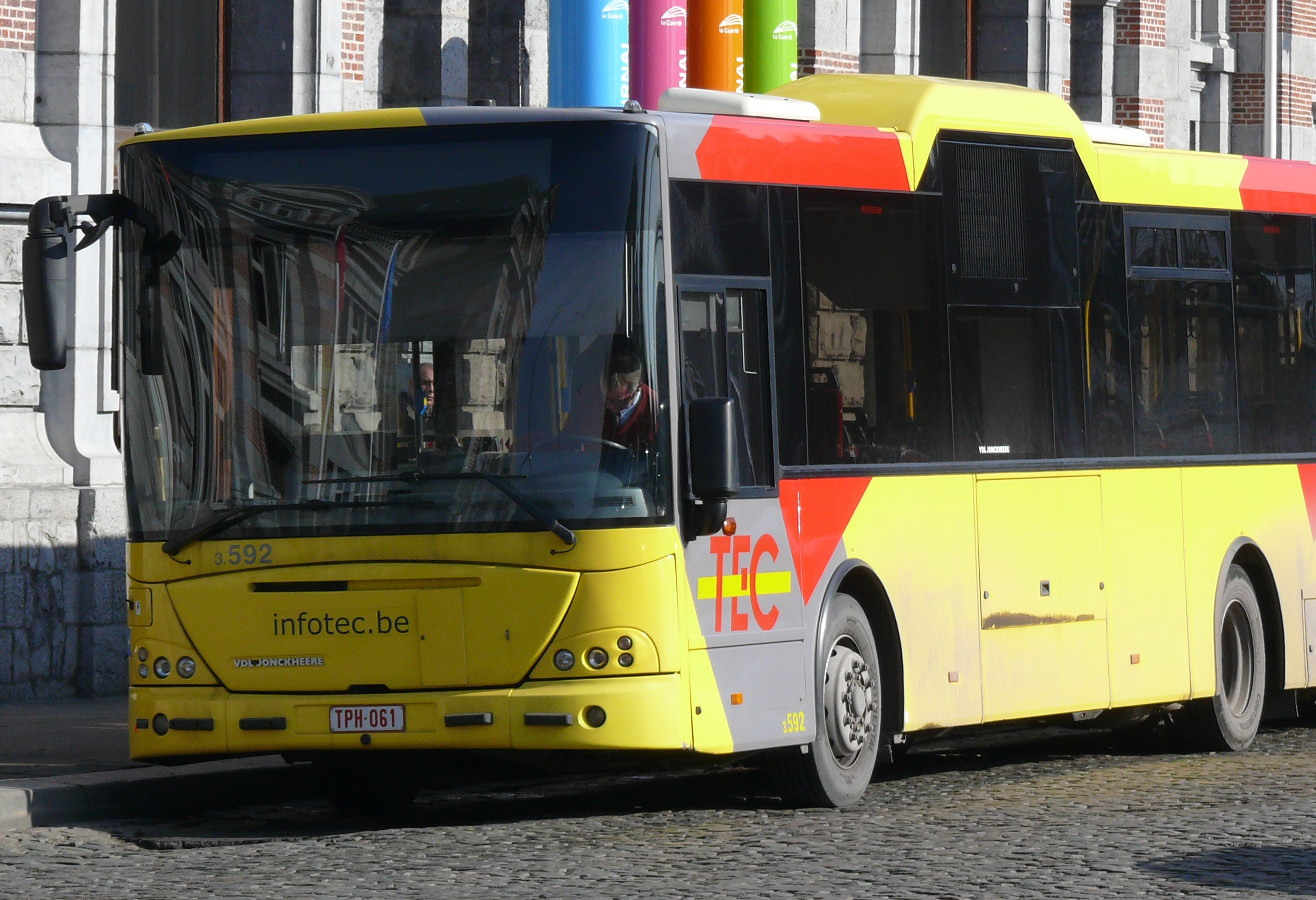 TEC TEC Hainaut 3592, a Jonckheere Transit 2000 G bus with a Jonckheere 115 body work and a DAF PE 228C motor.